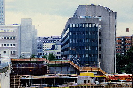 Fastigheten Nattugglan 14 sedd från norr